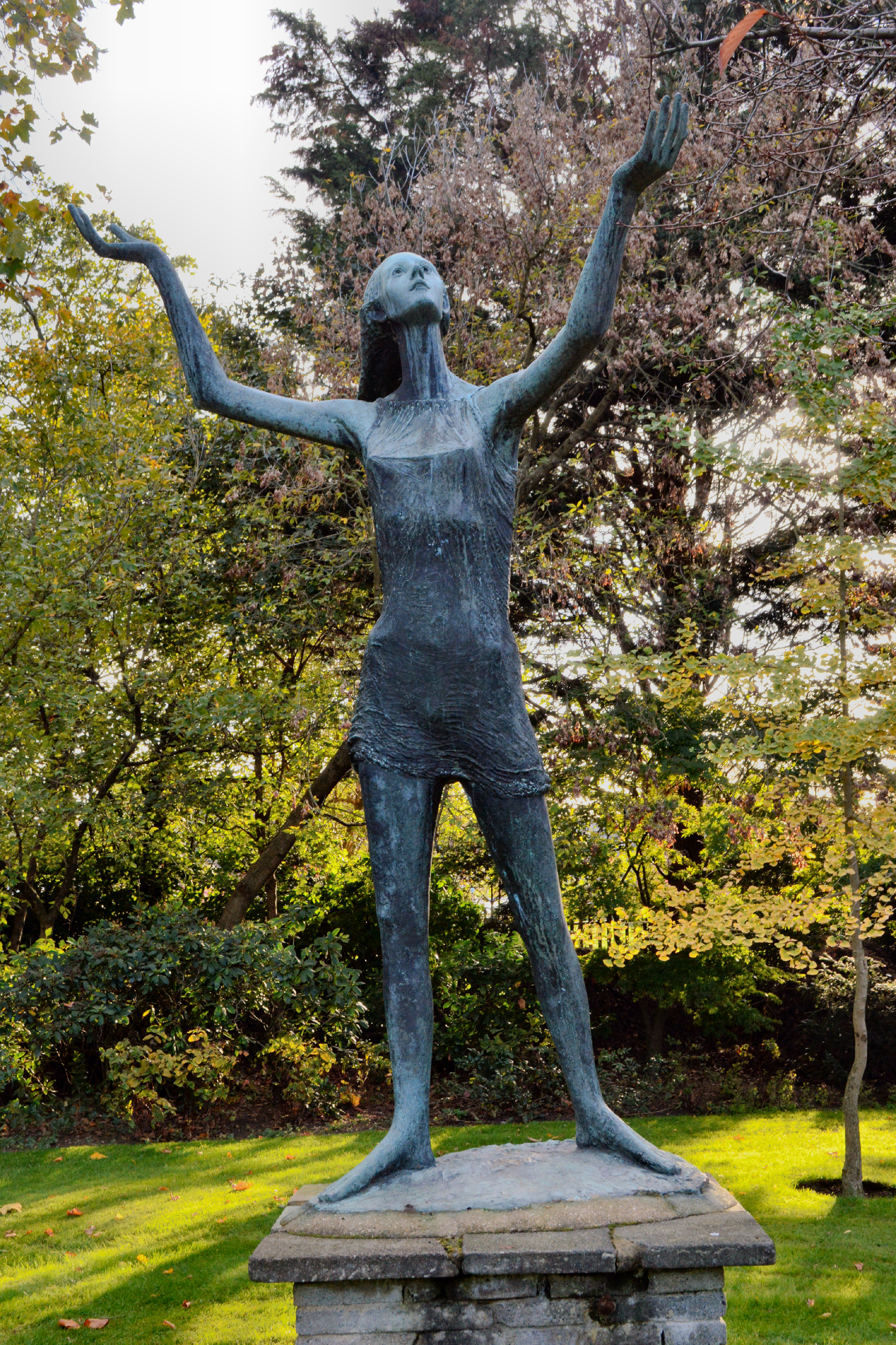 Roundwood Park, The Spirit of Youth by Freda Skinner